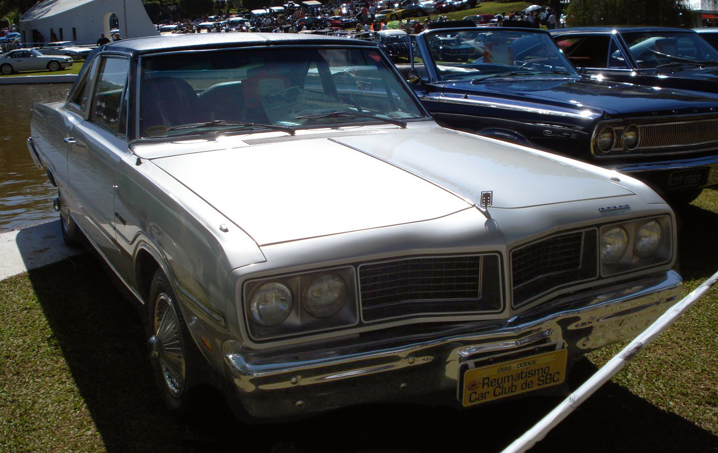 1980/1981 Dodge Magnum - still based on the old A-body Dart!